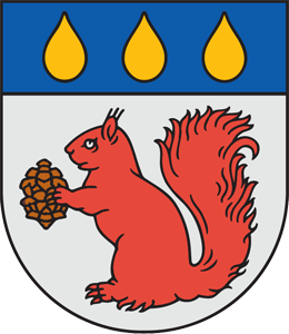 coat of arms of the city of Baldone, Latvia.